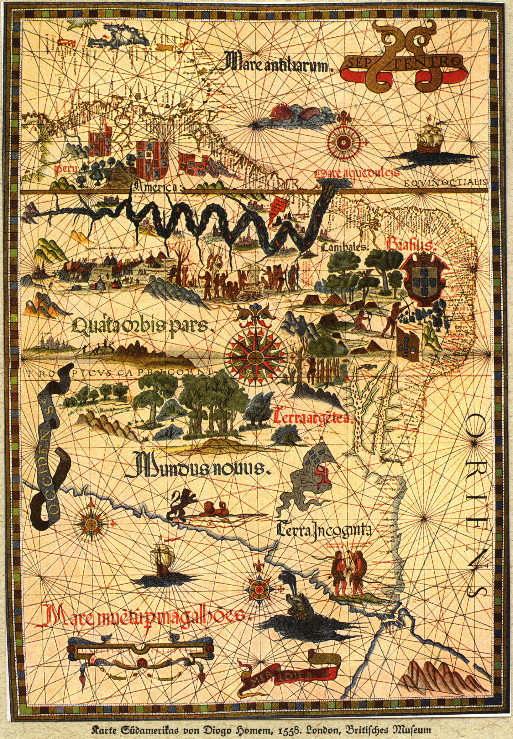 Map of South America drawn 1558 by Diogo Homem